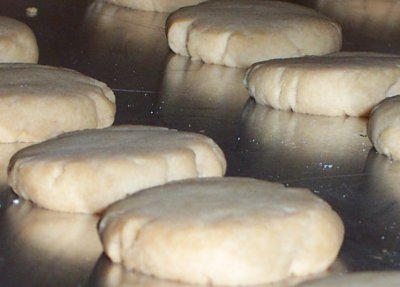 Photo of shortbread rounds made and photographed by Adina Bogert-O'Brien.